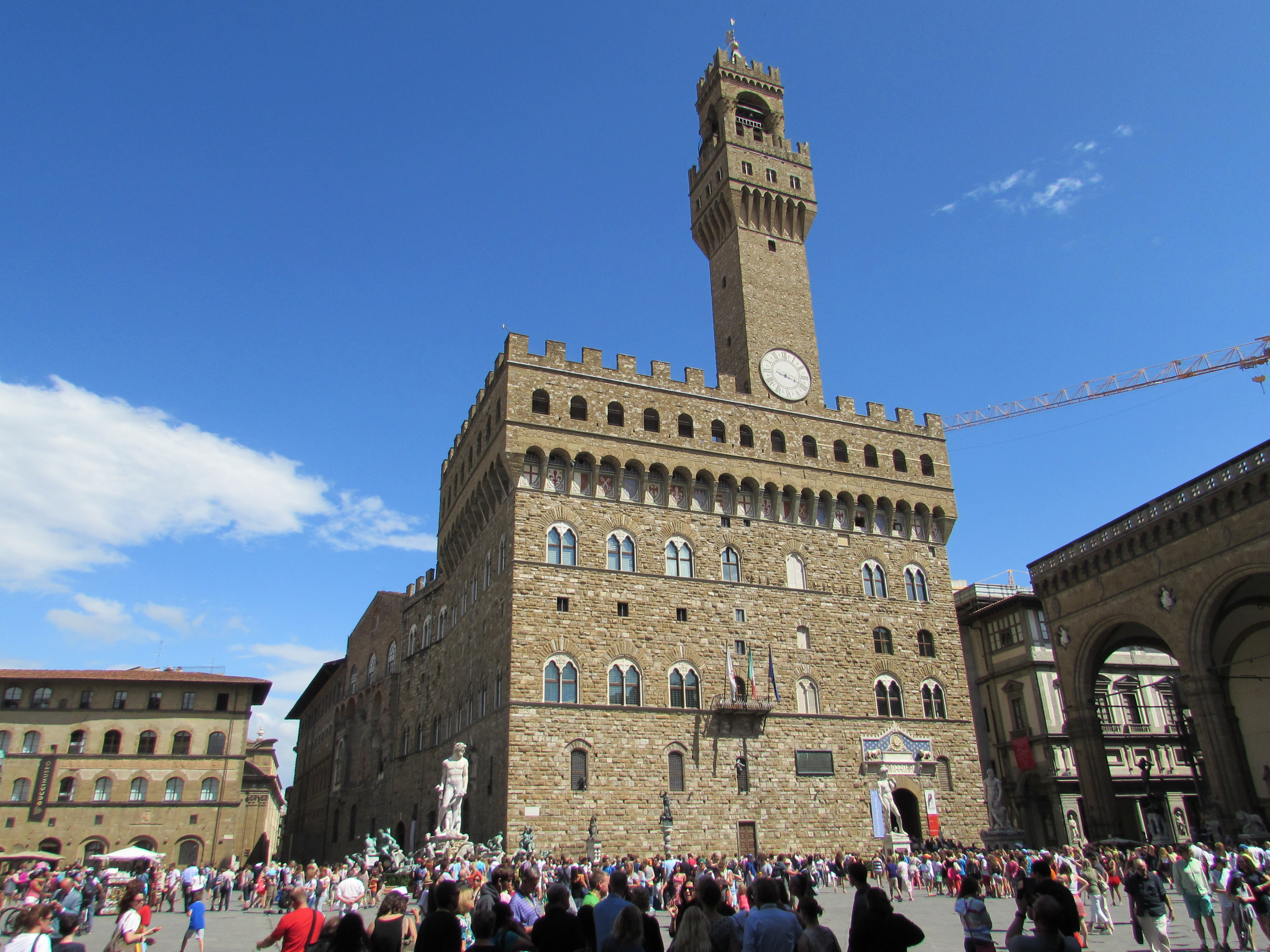 Piazza della Signoria, Florence, Italy